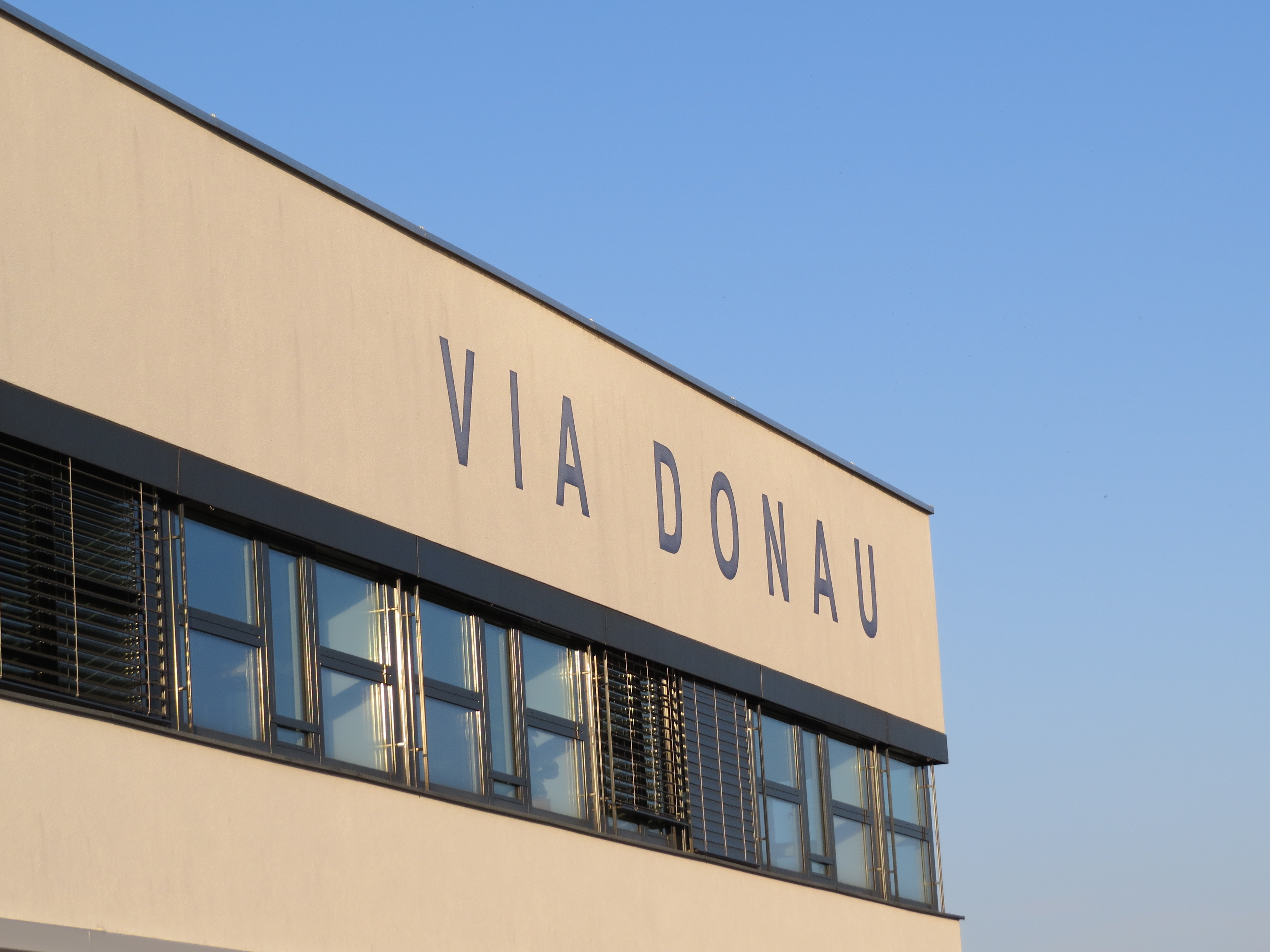 Logo on the building of via donau - Österreichische Wasserstraßen-Gesellschaft mbH in Krems an der Donau, Austria